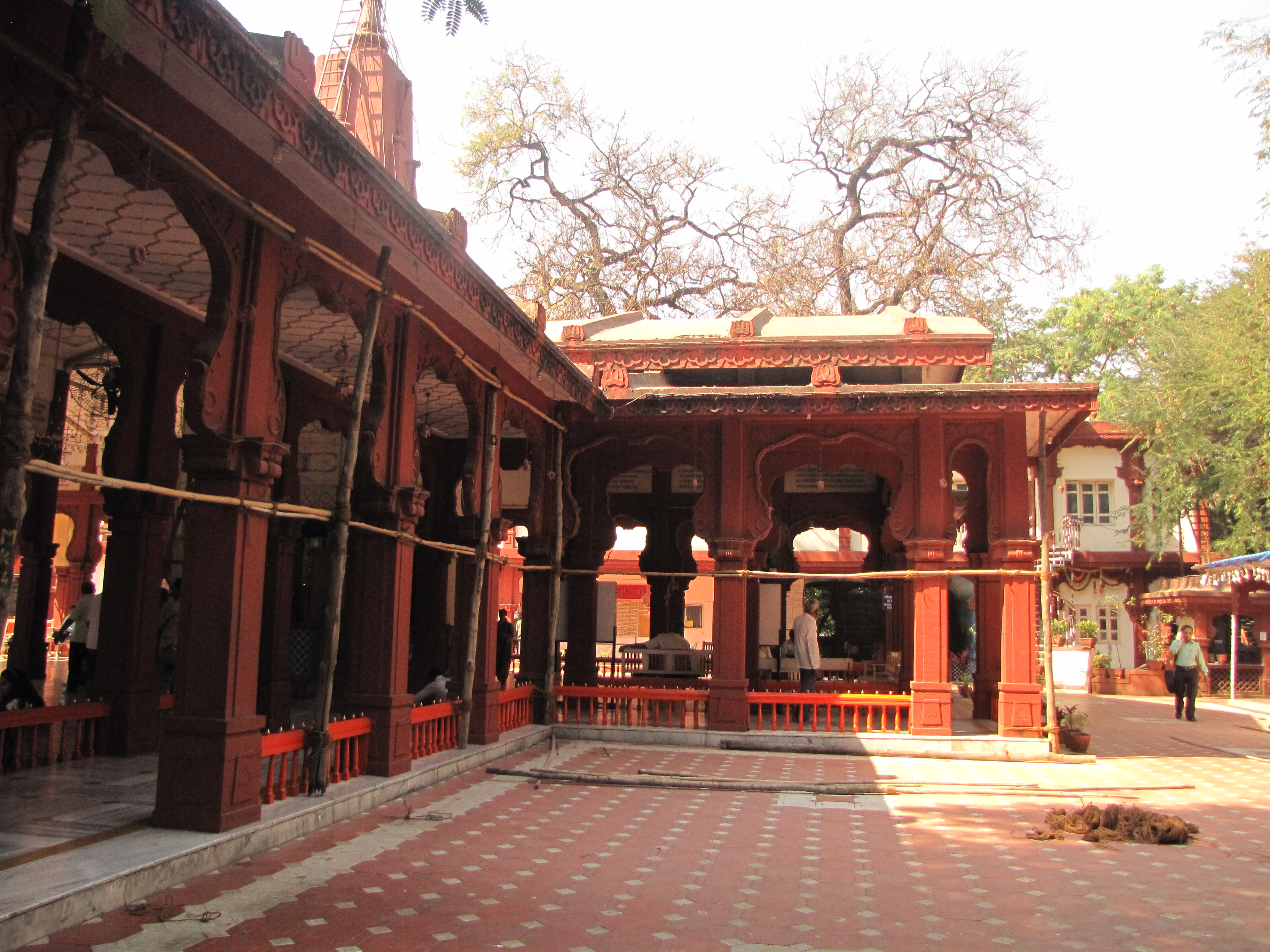 This is the ganesh temple in sarabaug